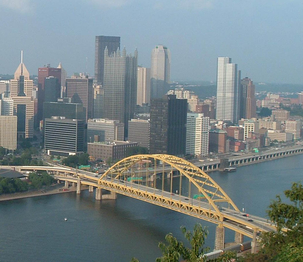 Cropped version of :Image:Pittsburgh skyline daytime.jpg showing only the Fort Pitt Bridge. Modified by User:Cacophony.